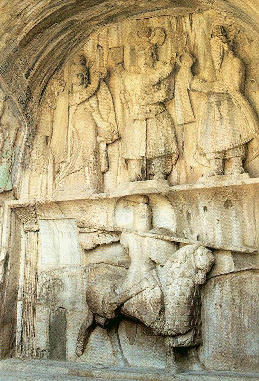 Relief Taq-e Bostan (Kermanshah Province in Iran) from the era of Sassanid Empire: One of the oldest depictions of a cataphract. The figure on top in the middle is believed to be Khosrow II. The figure to the right is Ahura Mazda, and to the left is the Persian Goddess Anahita. The cataphract is not known, although various theories exist on his identity, but he is certainly of royal nobility.